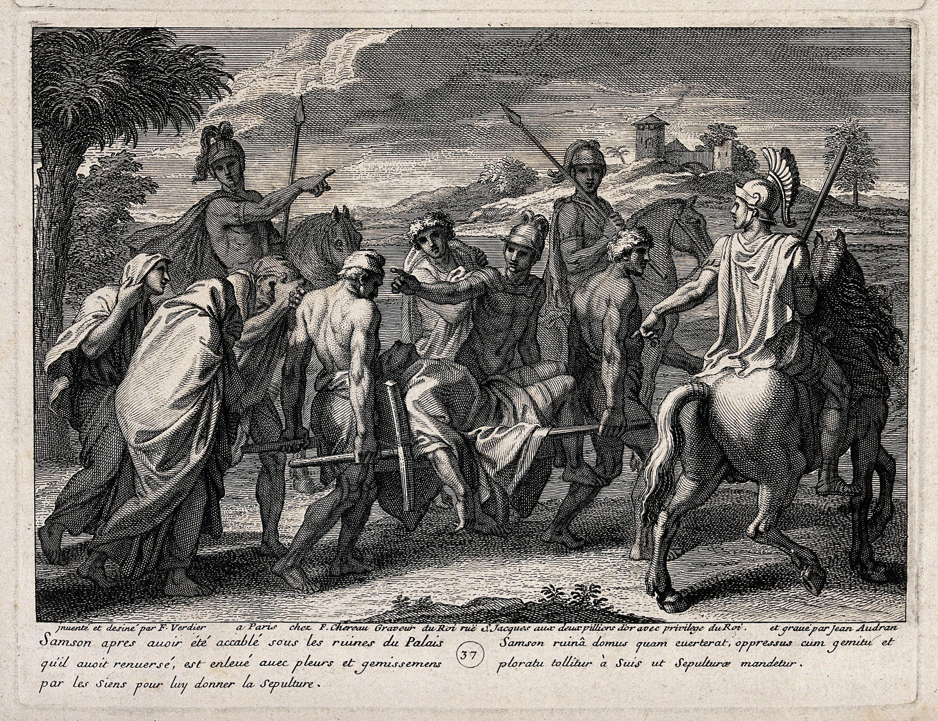 Samson's crushed body is borne away by his brethren. Engraving by J. Audran after F. Verdier, 1698. Iconographic Collections Keywords: Francois Verdier; Samson; Jean Audran